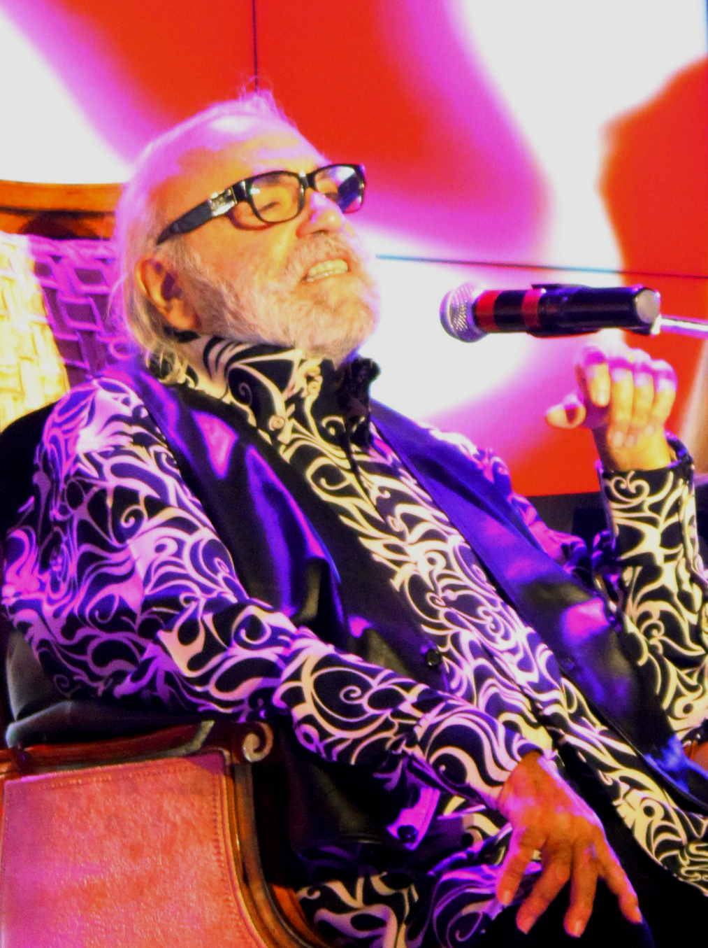 Demis Roussos in Baku